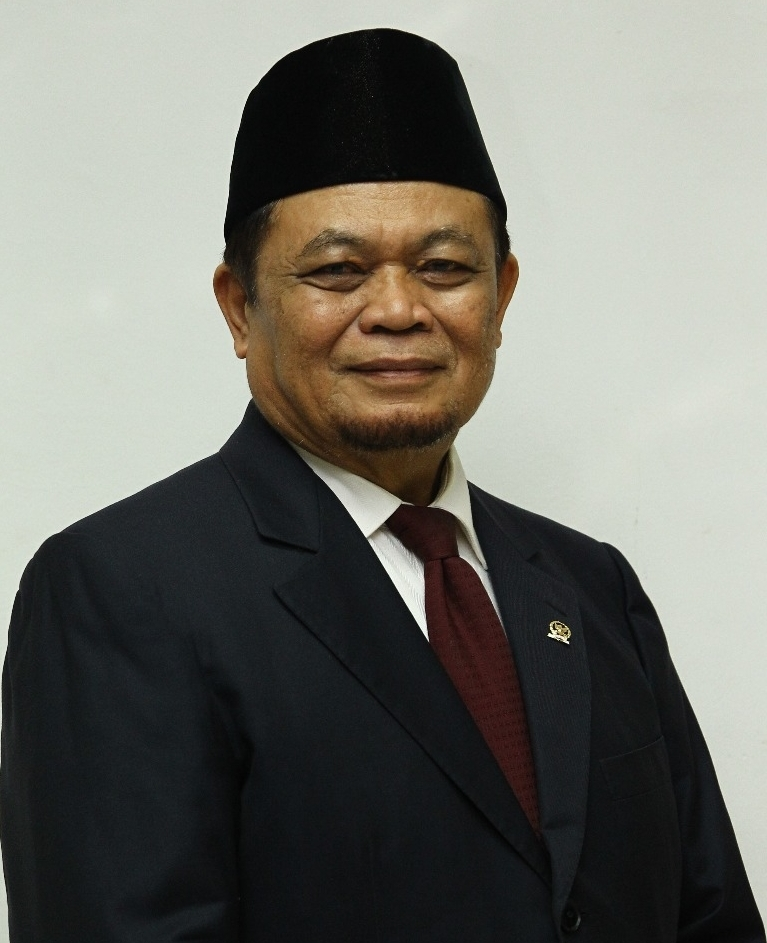 Portrait of Herman Darnel Ibrahim as a member of Regional Representative Council Republix Indonesia period 2014—2019 representing West Sumatra.